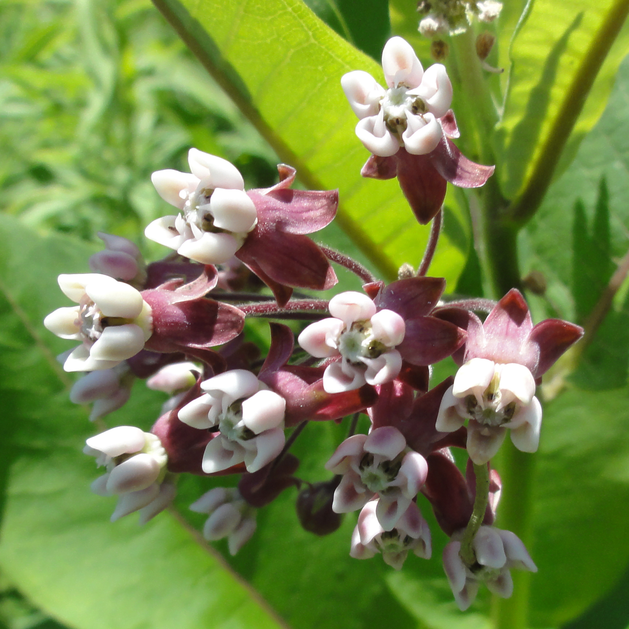 Asclepias syriaca (common milkweed) at Skaneateles Conservation Area